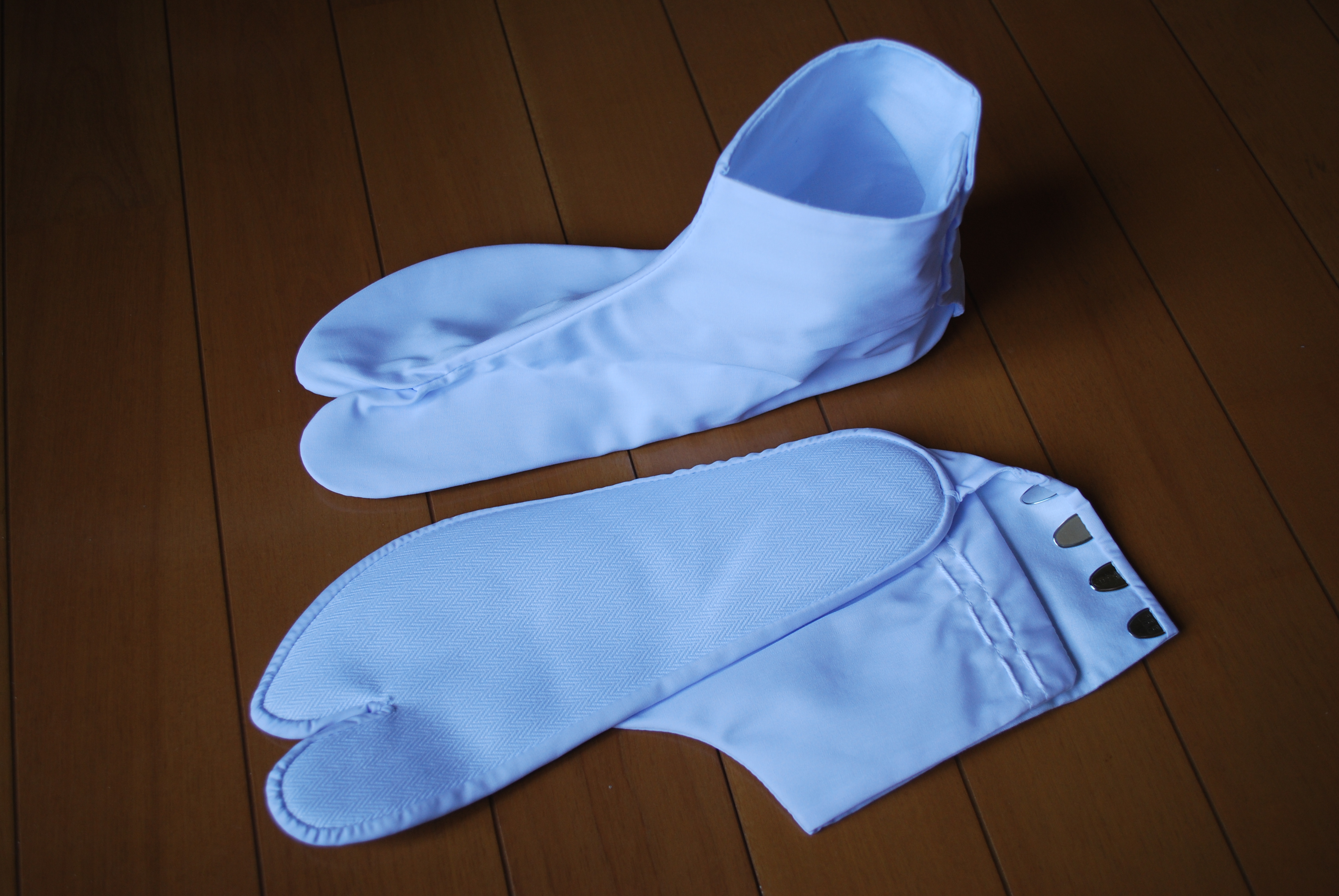 Japanese socks in gyoda-city,japan